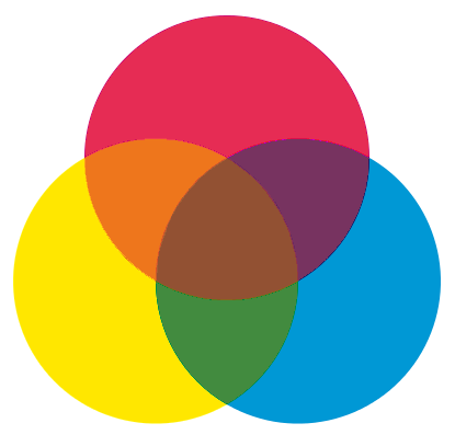 Subtractive color mixing RYB color model